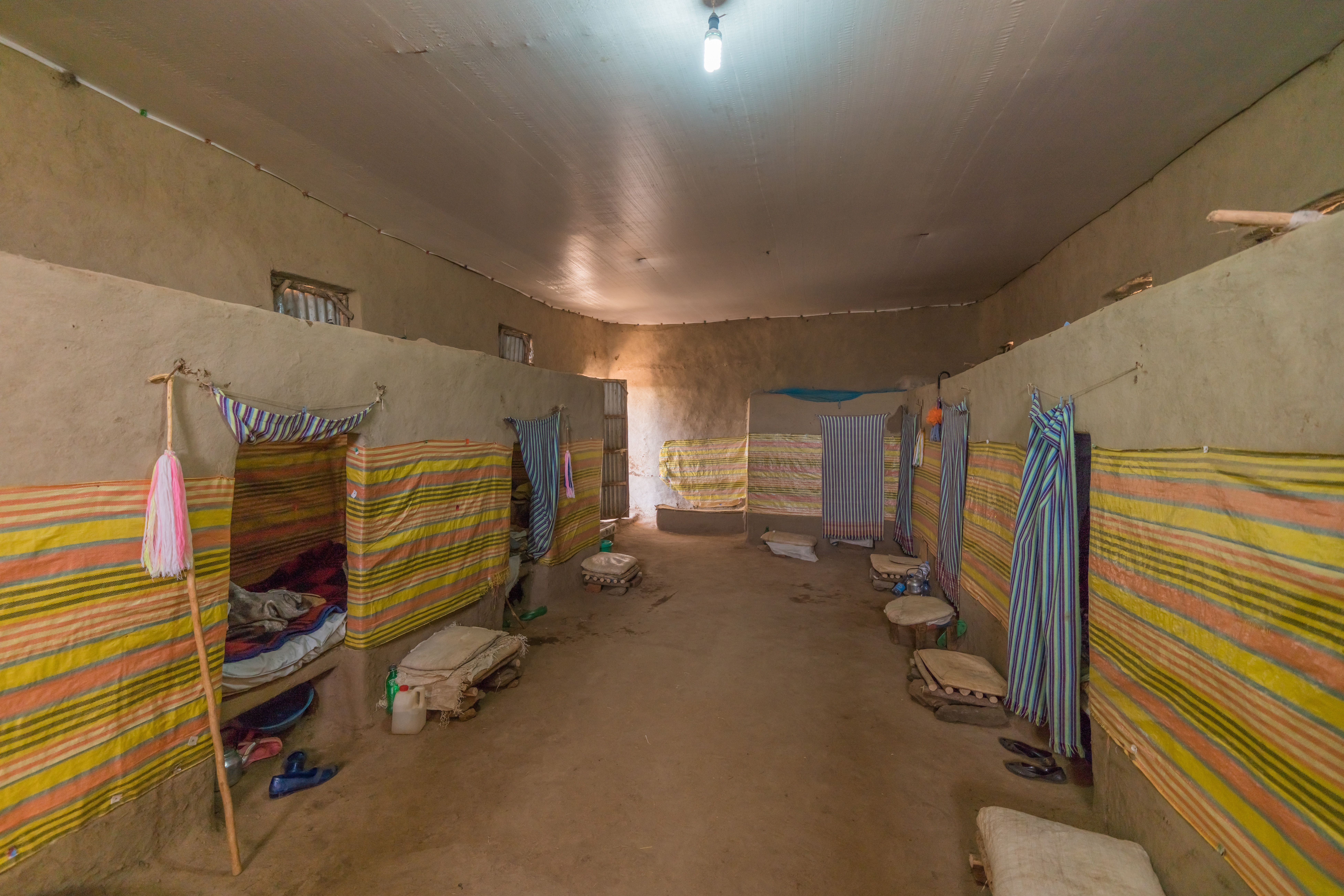 Awra Amba community in Amhara Region, Ethiopia: elderly house